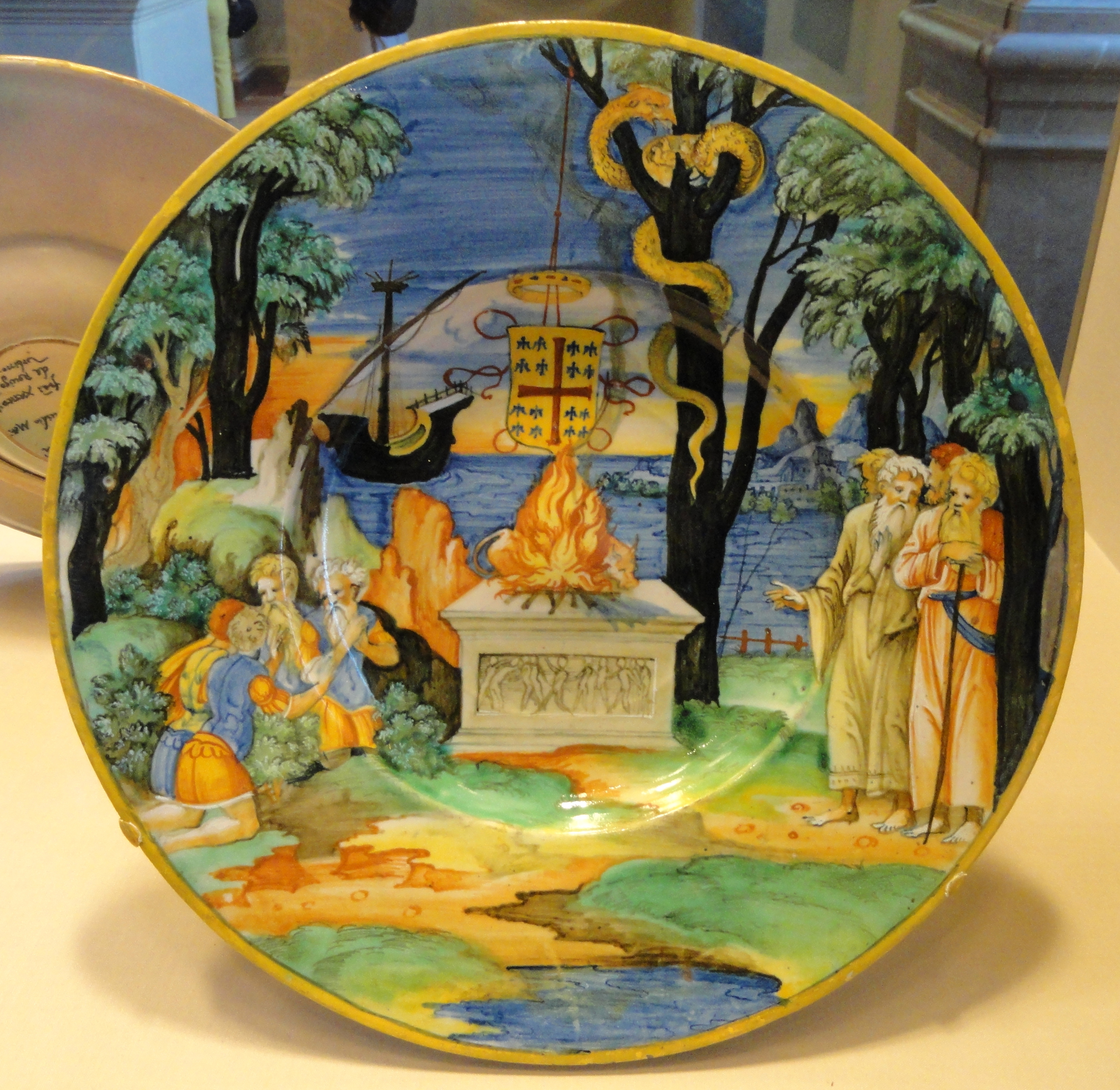 Maiolica exhibited in the National Gallery of Art, Washington, DC, USA. This artwork is old enough so that it is in the public domain.